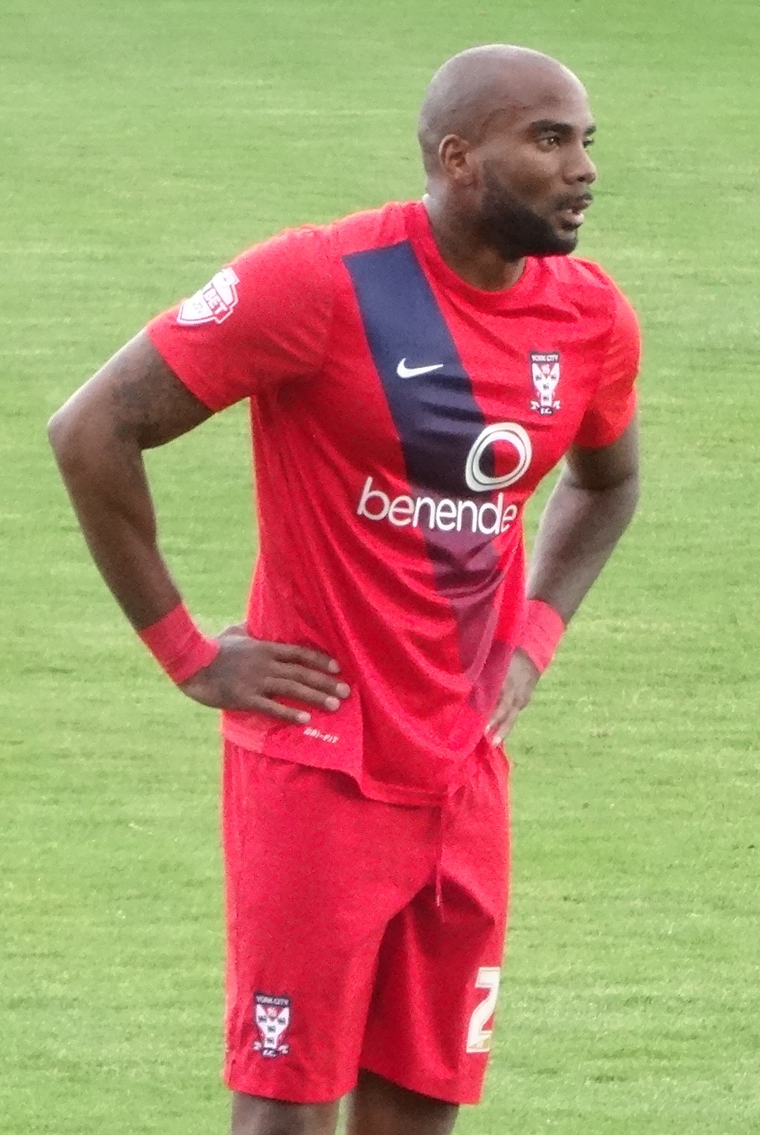 Emile Sinclair playing for York City against Carlisle United at Bootham Crescent, York on 19 September 2015